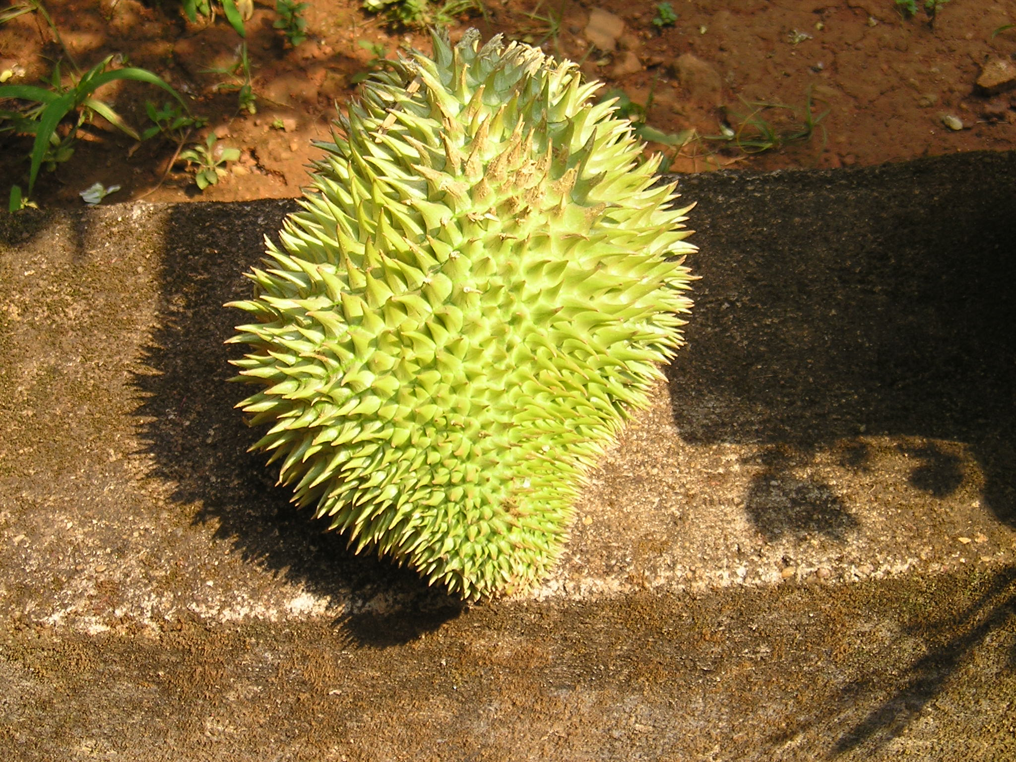 Durian